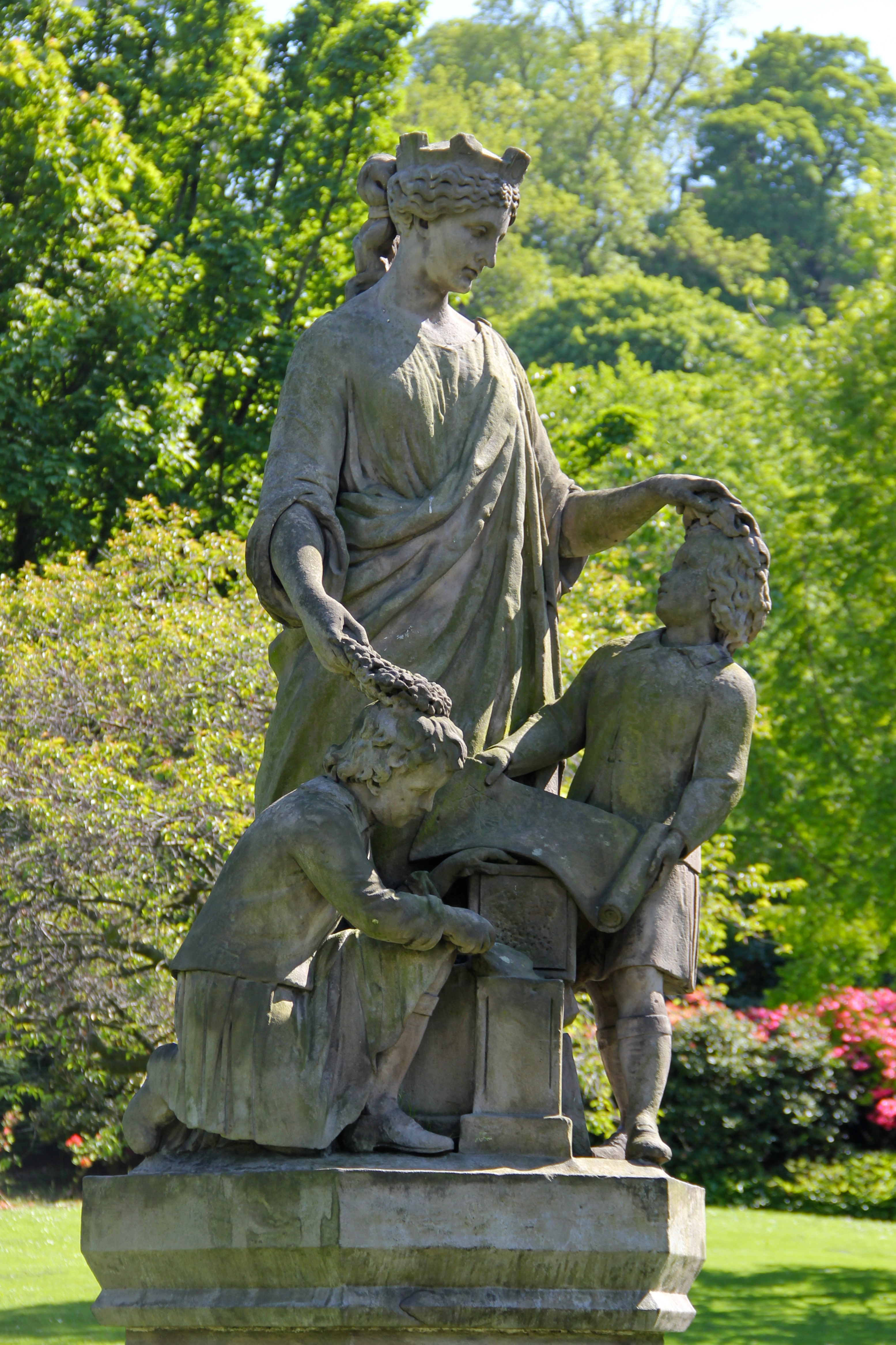 The Genius Of Architecture Rewarding At Once The Science And The Practice Of The Art by William Brodie, located in the Princes Street Gardens in Edinburgh.